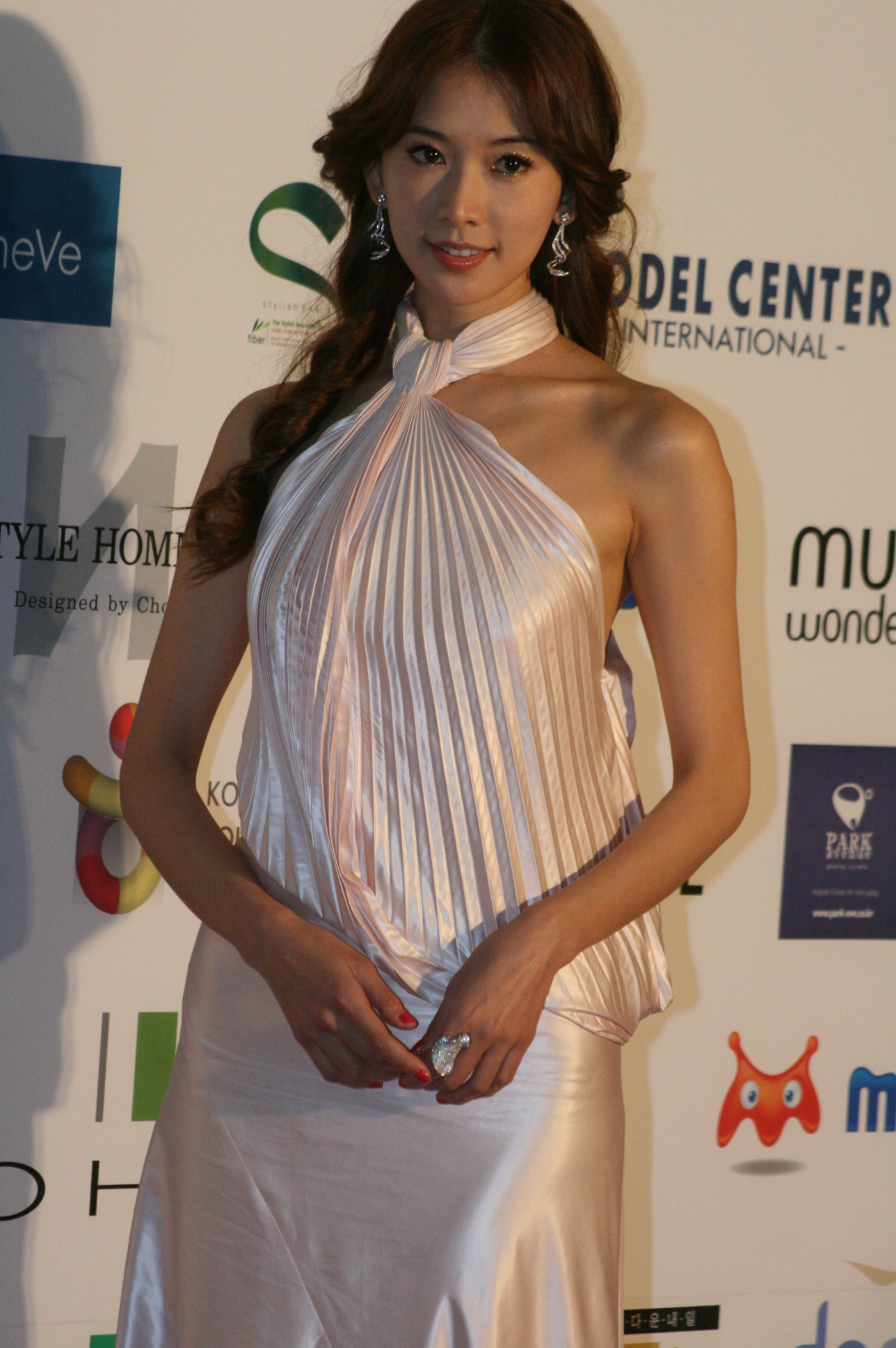 Lin Chi-ling at the 2009 Asia Model Festival Awards (AMFA), COEX Convention Hall, Seoul, South Korea.